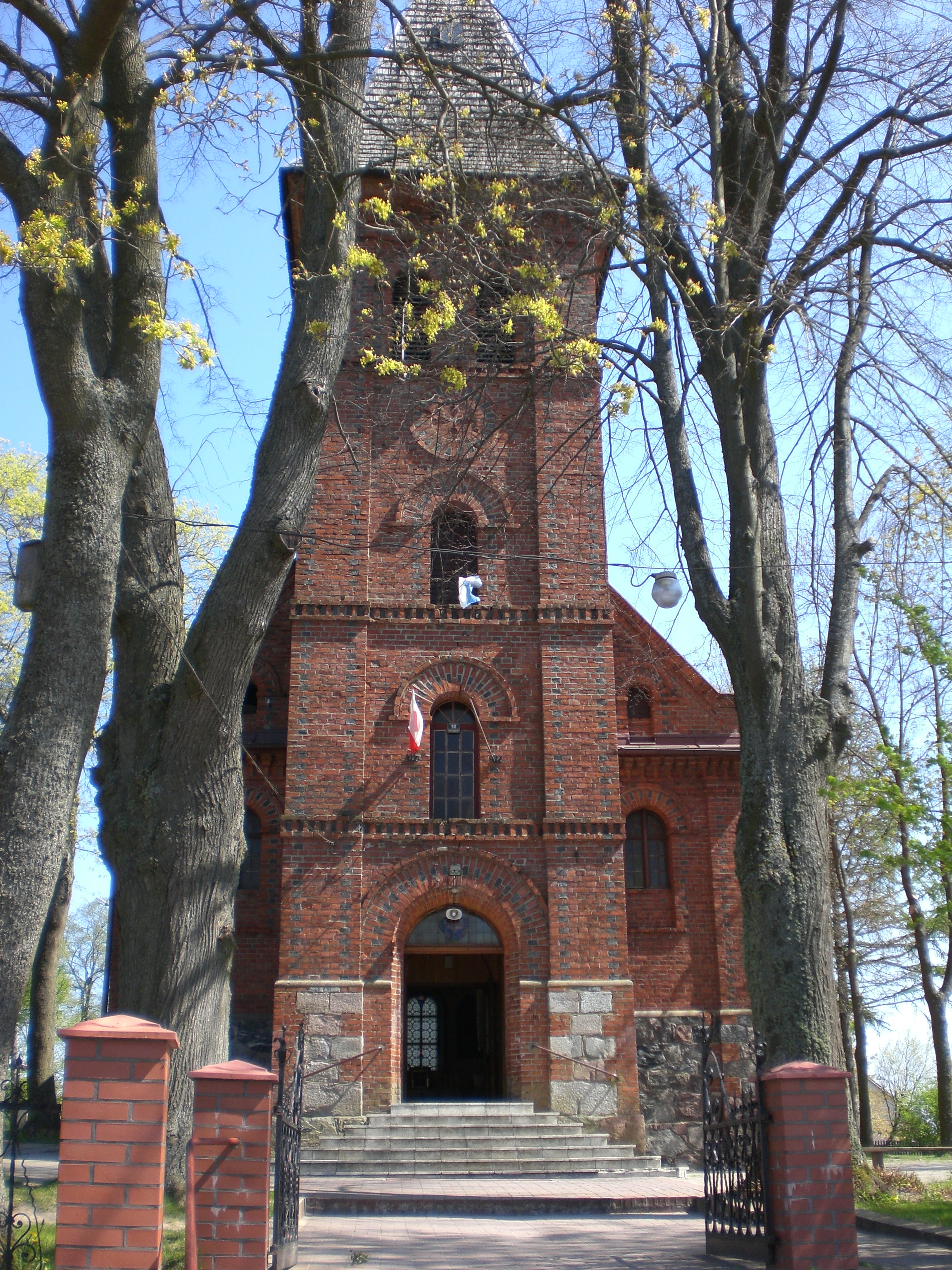 Church in Mirachowo, Poland